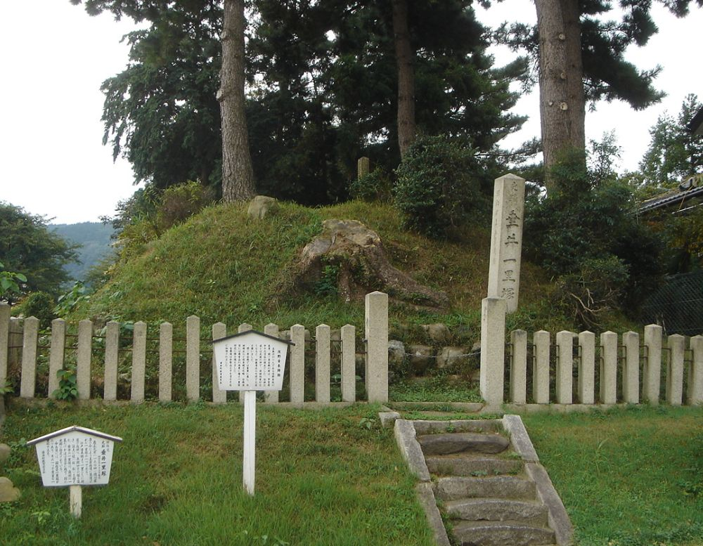 Tarui Ichirizuka on the Nakasendō in Tarui, Gifu, Japan.